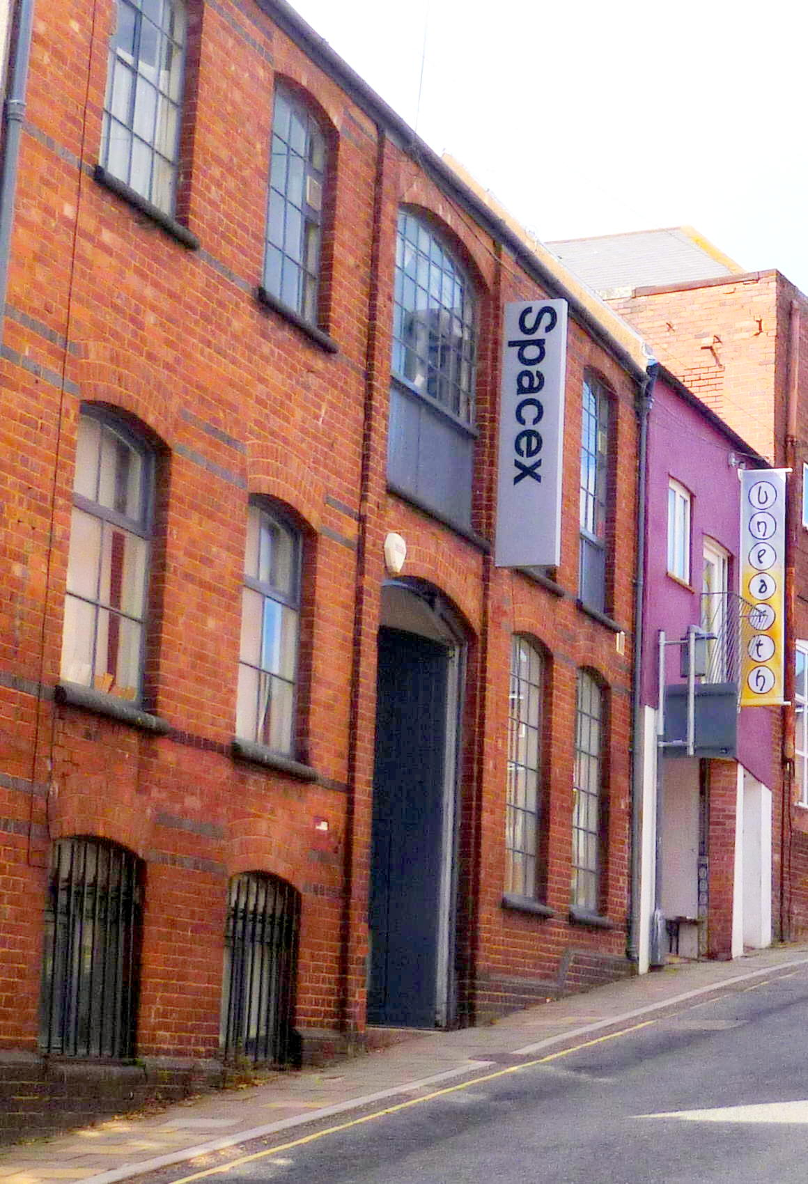 Photo of the Spacex Art Gallery in Exeter, UK Spacex (art gallery)